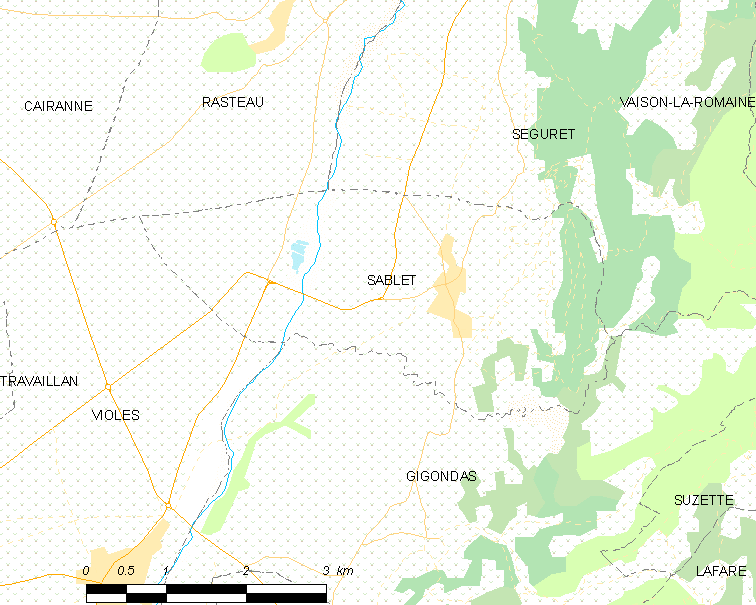 Map of French municipality Sablet